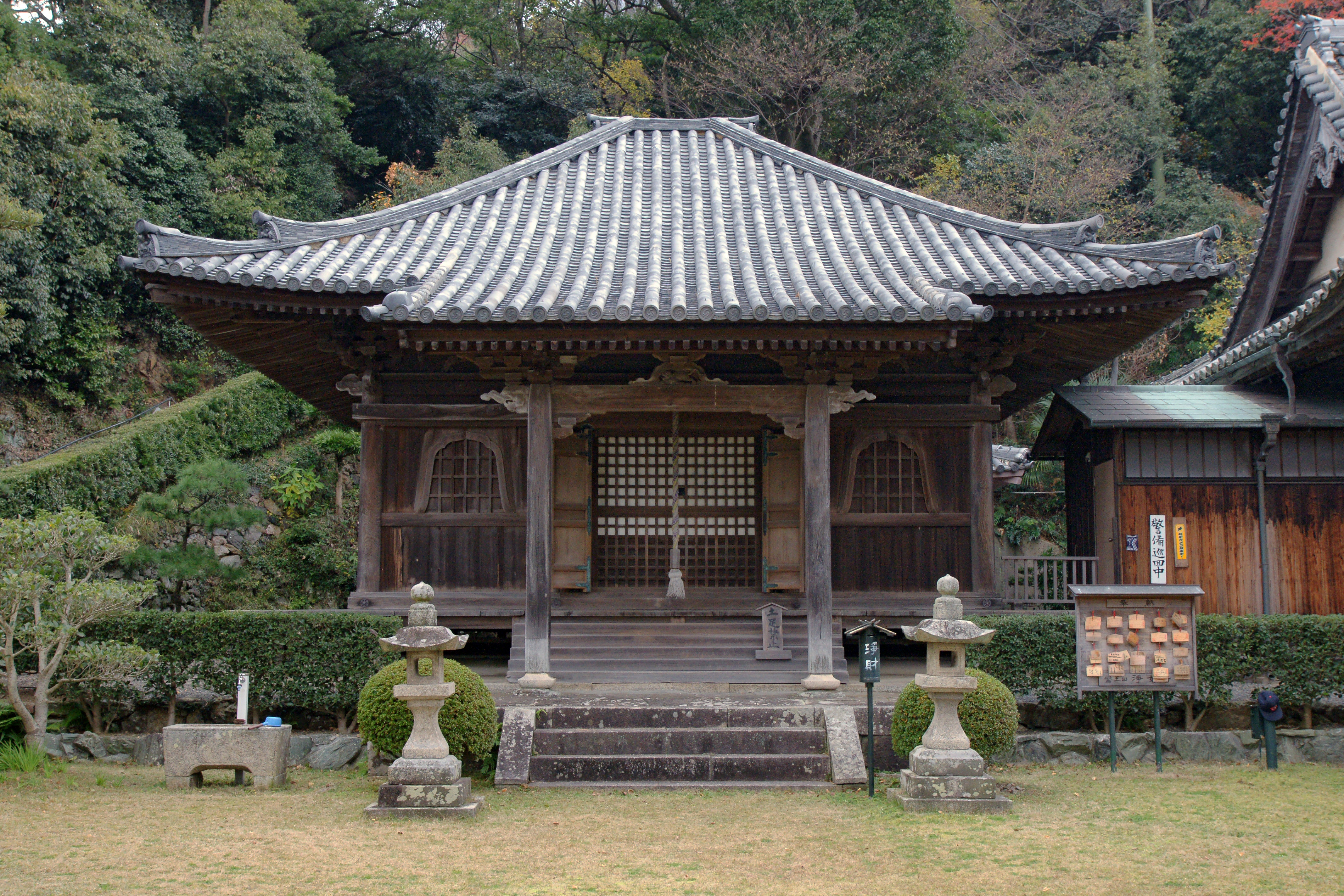 Jomyoji, Arida, Wakayama prefecture, Japan